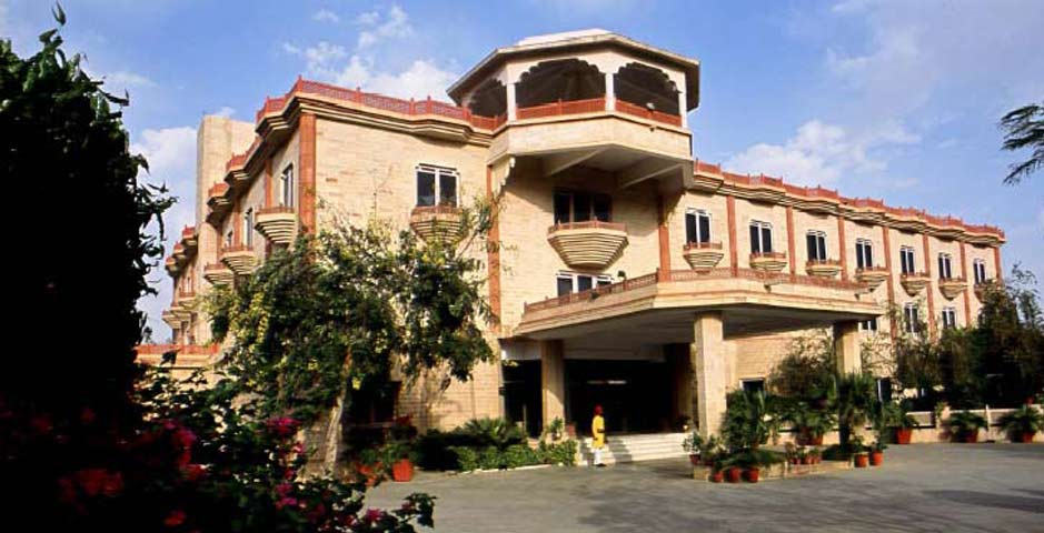 ajmer